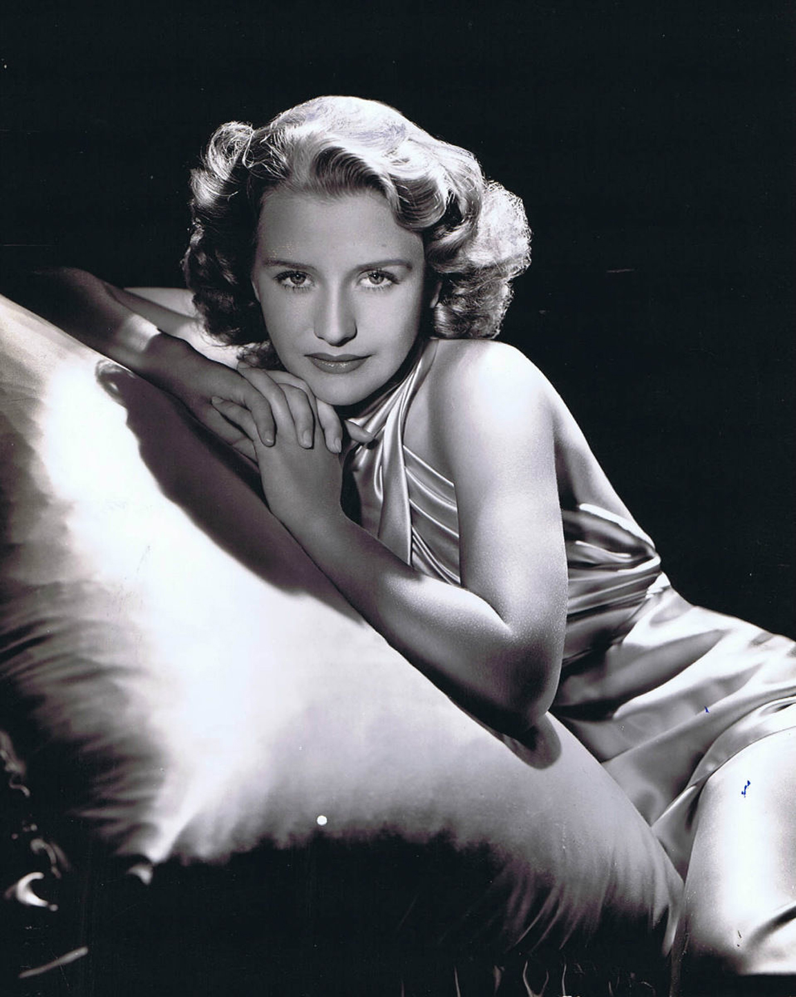 Priscilla Lane publicity photo, 1939